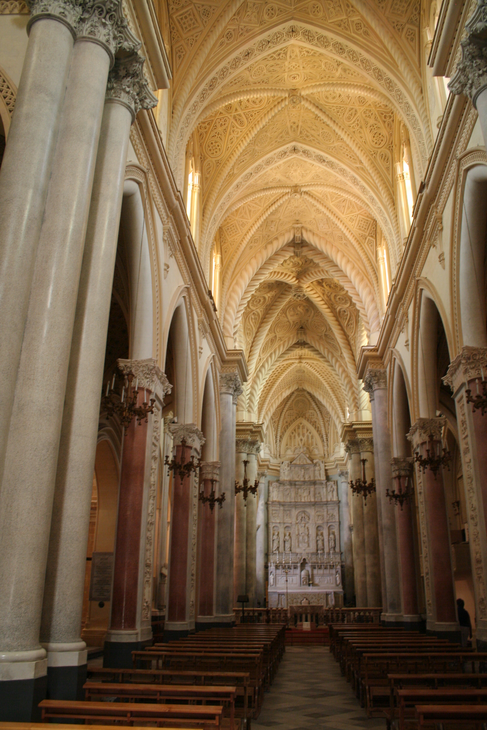 Chiesa Marde Erice Sicily.